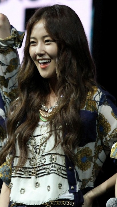 4Minute performing in July 2012